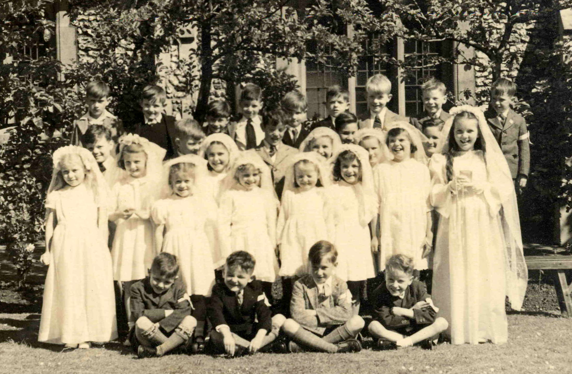 Group portrait of children at their First Communion, Holyrood School, Swindon, 1949